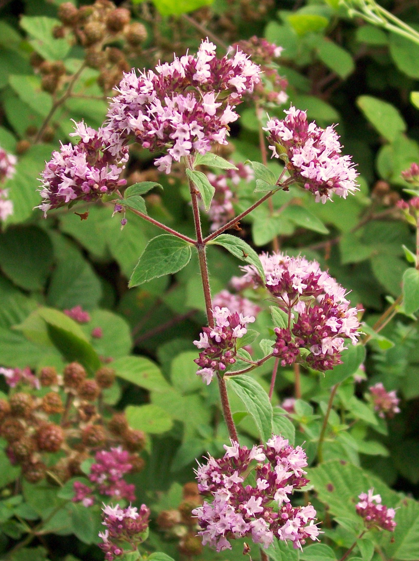 Wild Marjoram (Origanum vulgare) aka Oregano, Great Ashby District Park's nature reserve, Stevenage, 3 August 2010.